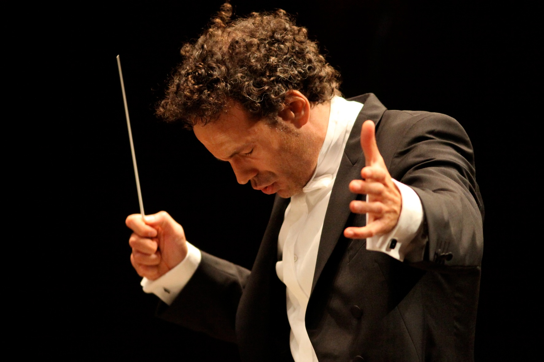 Aleksandar Marković (born 7. August, 1975) is a Serbian born conductor living in Vienna, Austria. He has established himself as one of the most versatile young conductors, commanding a wide range of both symphonic and operatic repertoire. From 2005 to 2008 he was a principal conductor of Tyrolean Opera House (Tiroler Landestheater Innsbruck), In year 2008 he became a principal conductor of Brno Philharmonic Orchestra, Czech Republic. His contract has recently been extended by orchestra's unanimous vote until the end of 2013/14 season.